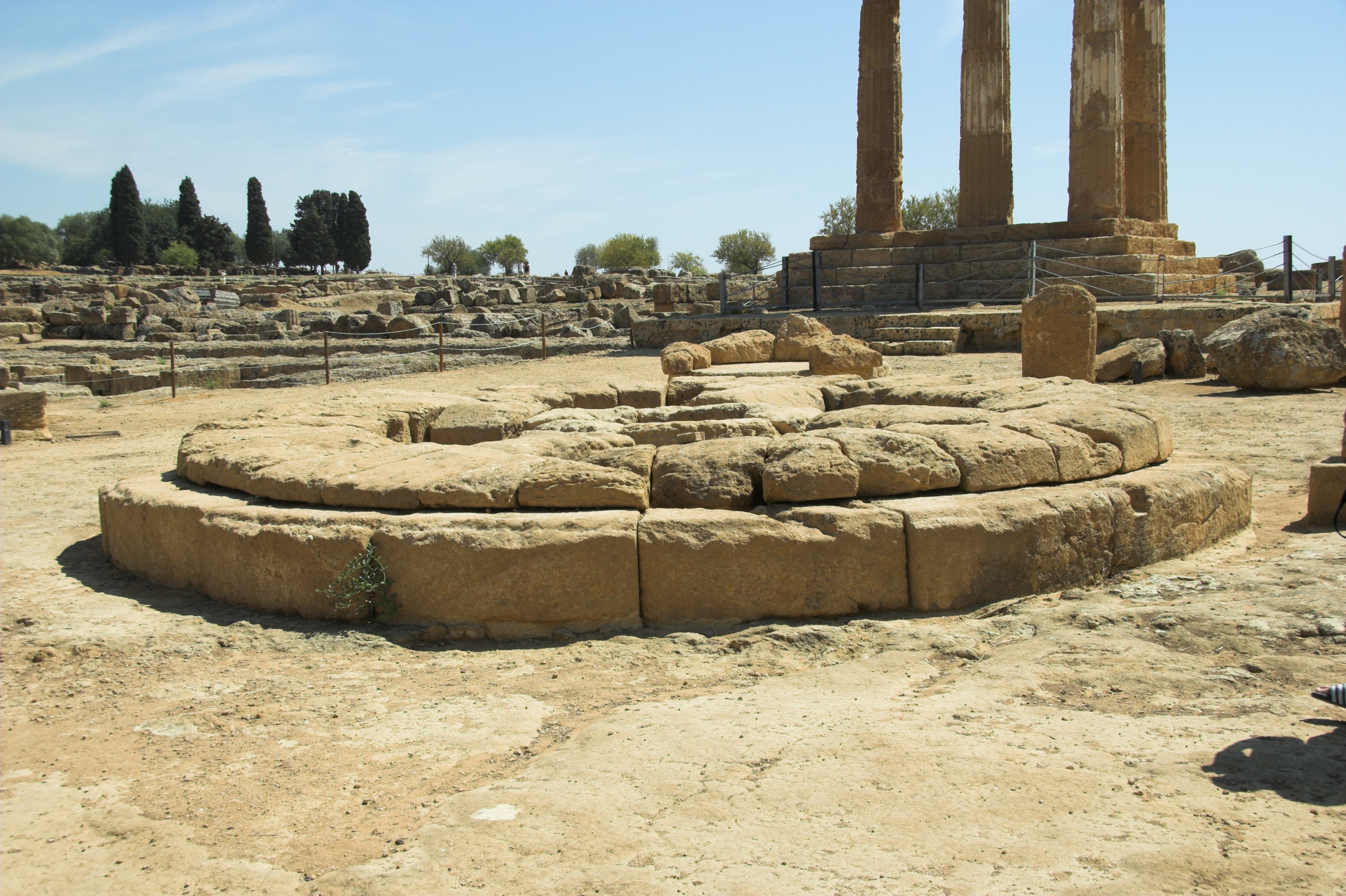 Sanctuary of Chthonian goddesses and Temple of Dioscuri. Archaeological Park in Agrigento.